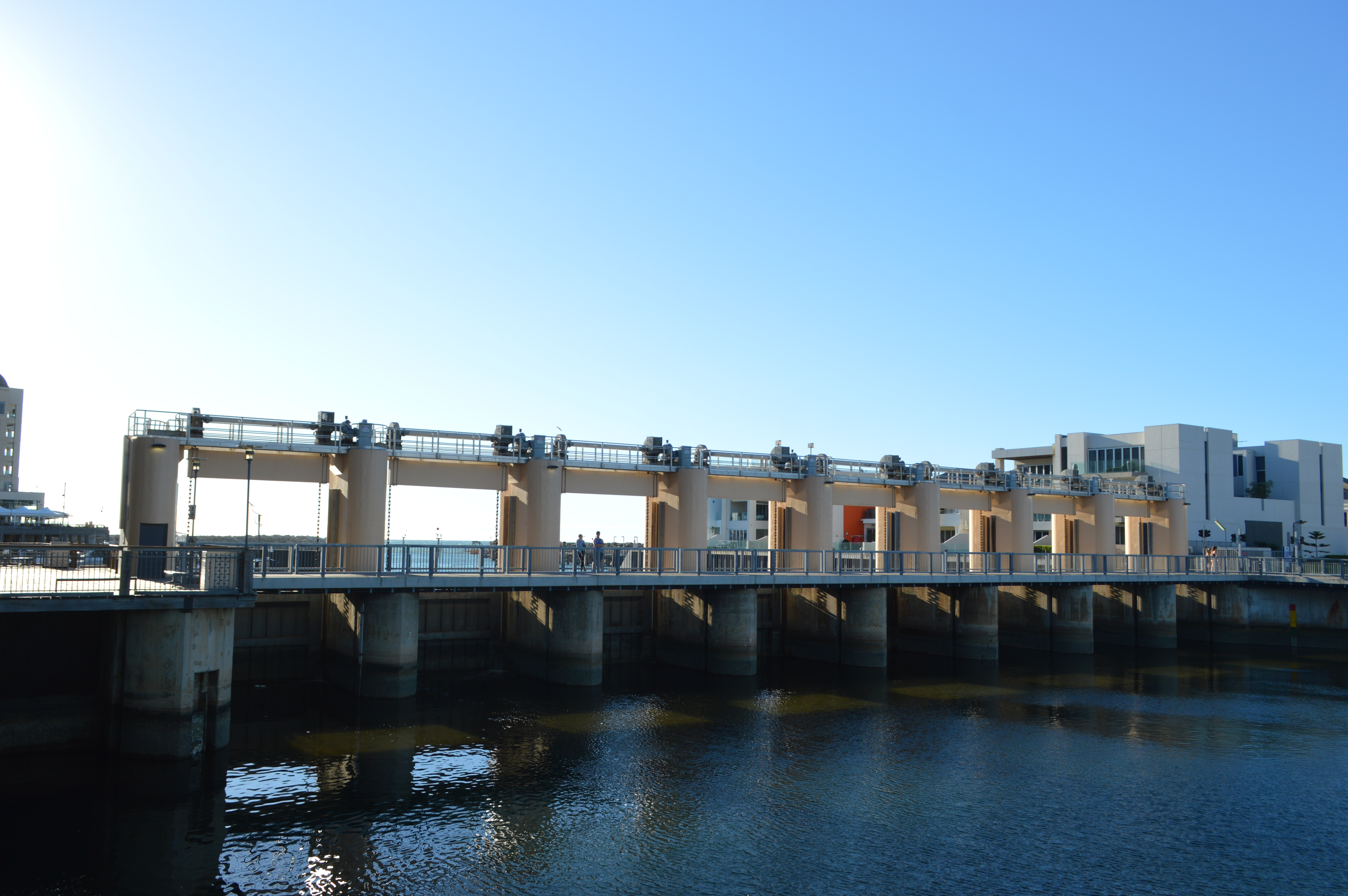 Patawalonga River Weir taken from Patawalonga side facing northwest